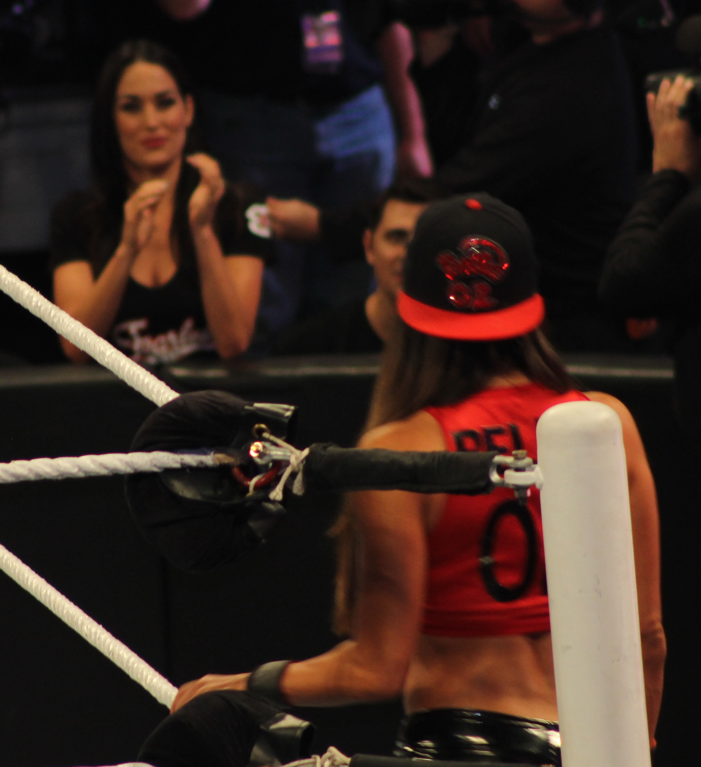 From the crowd, Brie Bella watches her sister, Nikki Bella, who is about to participate in a 4-1 handicapped match.